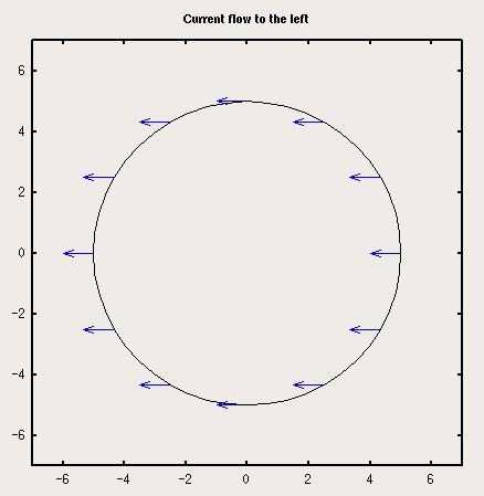 Diagram illustrating how Darrieus wind turbine or Gorlov helical turbine works - drawn by the author to go with article